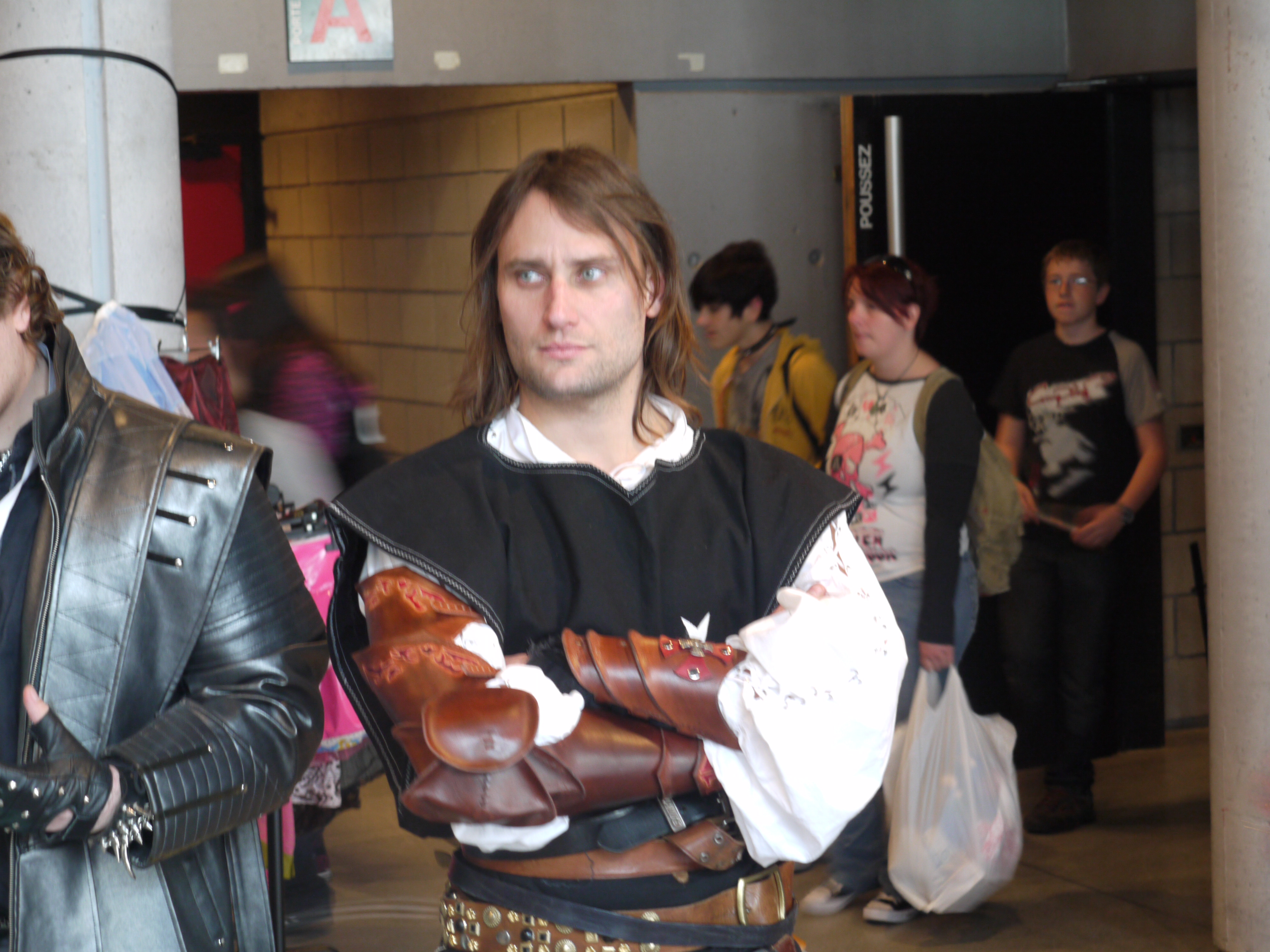 Dark Avenger of the Noob shortcom at the Mang'Azur Festival at the Zenith of Toulon in 2009.